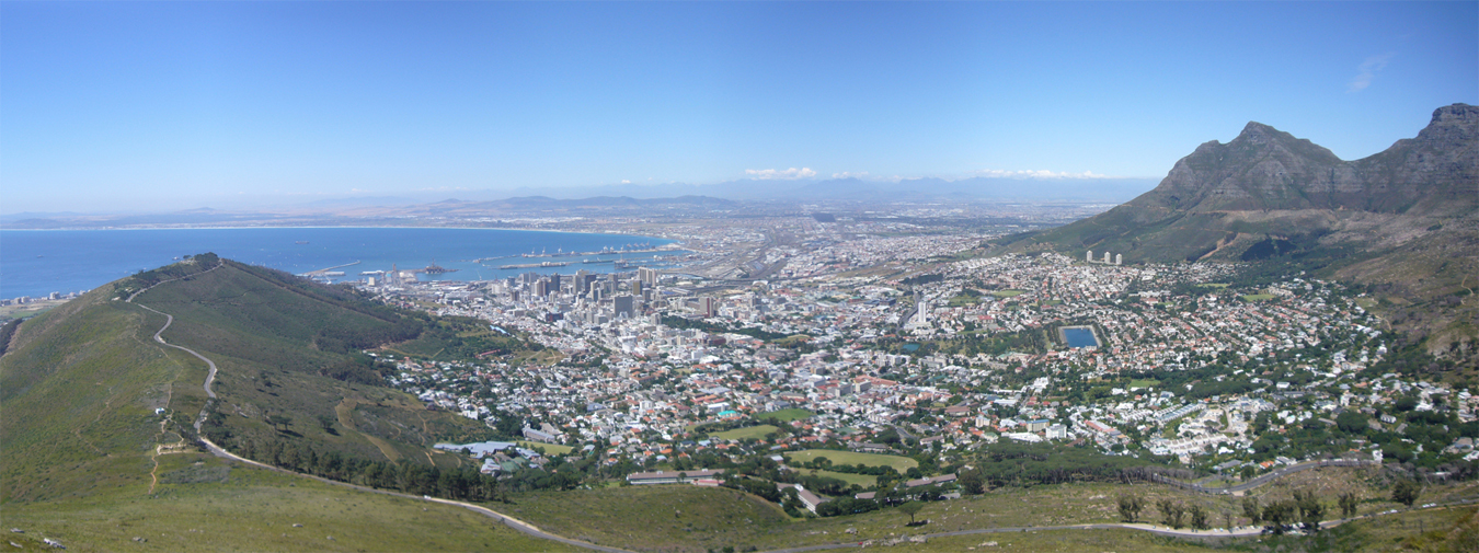 Cape Town City Bowl from Lions Head with Lions Rump (Signal Hill) and Cape Flats in the distance.